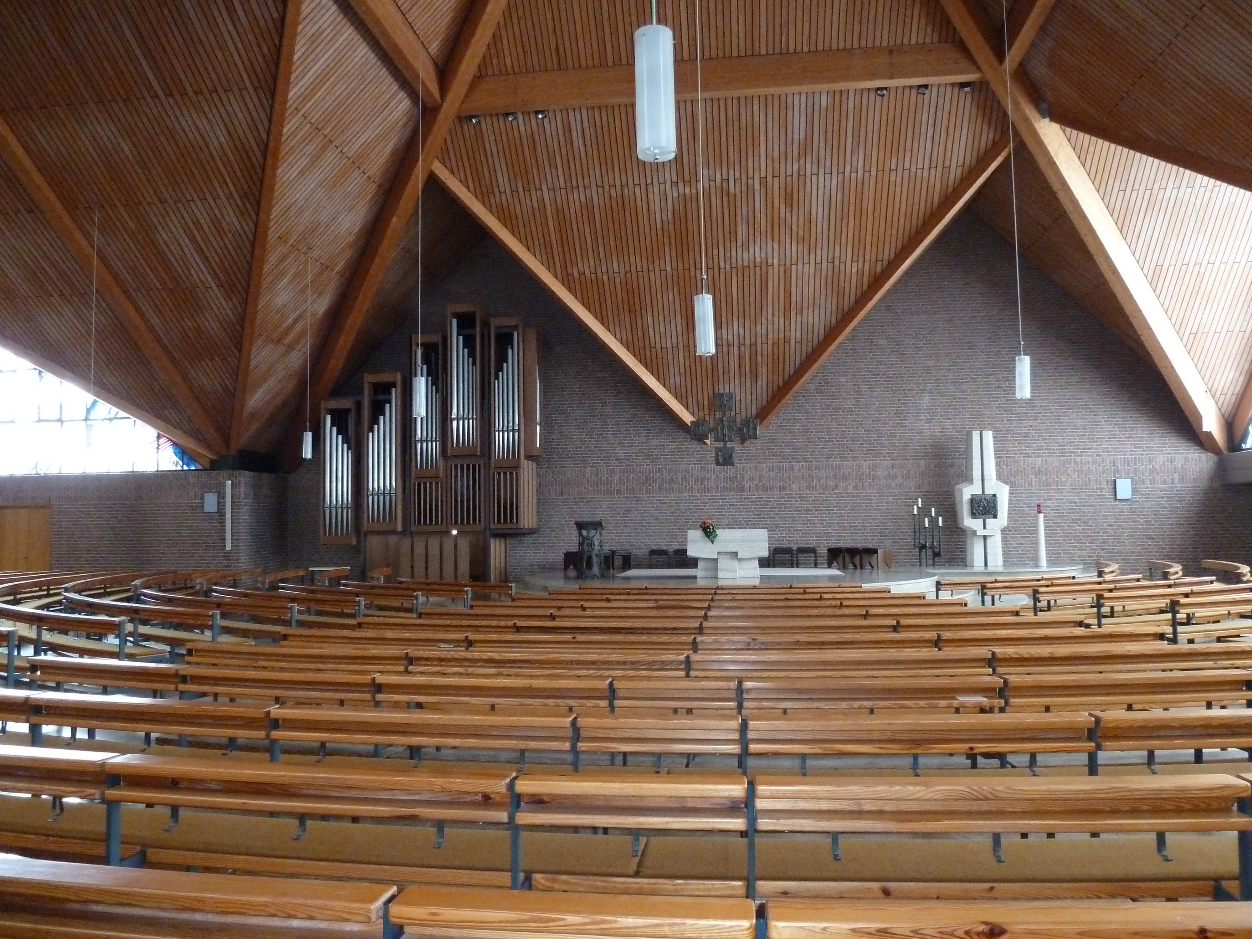 own file